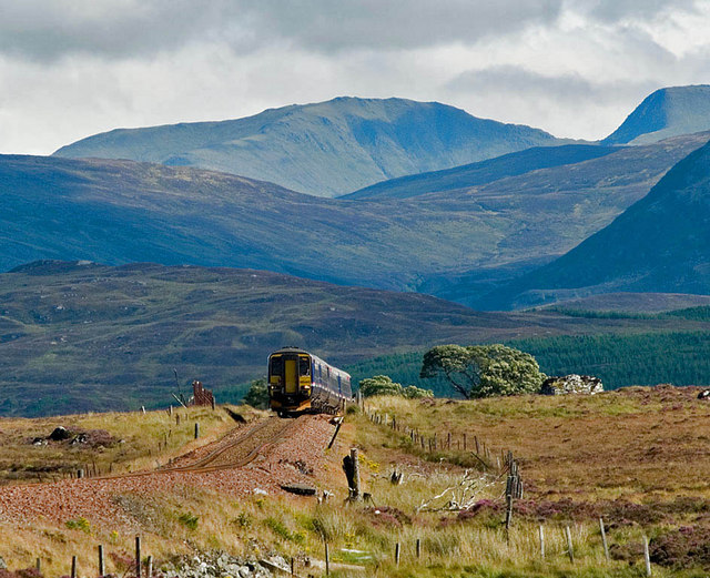 A Glasgow - Fort William train climbs onto Rannoch Moor